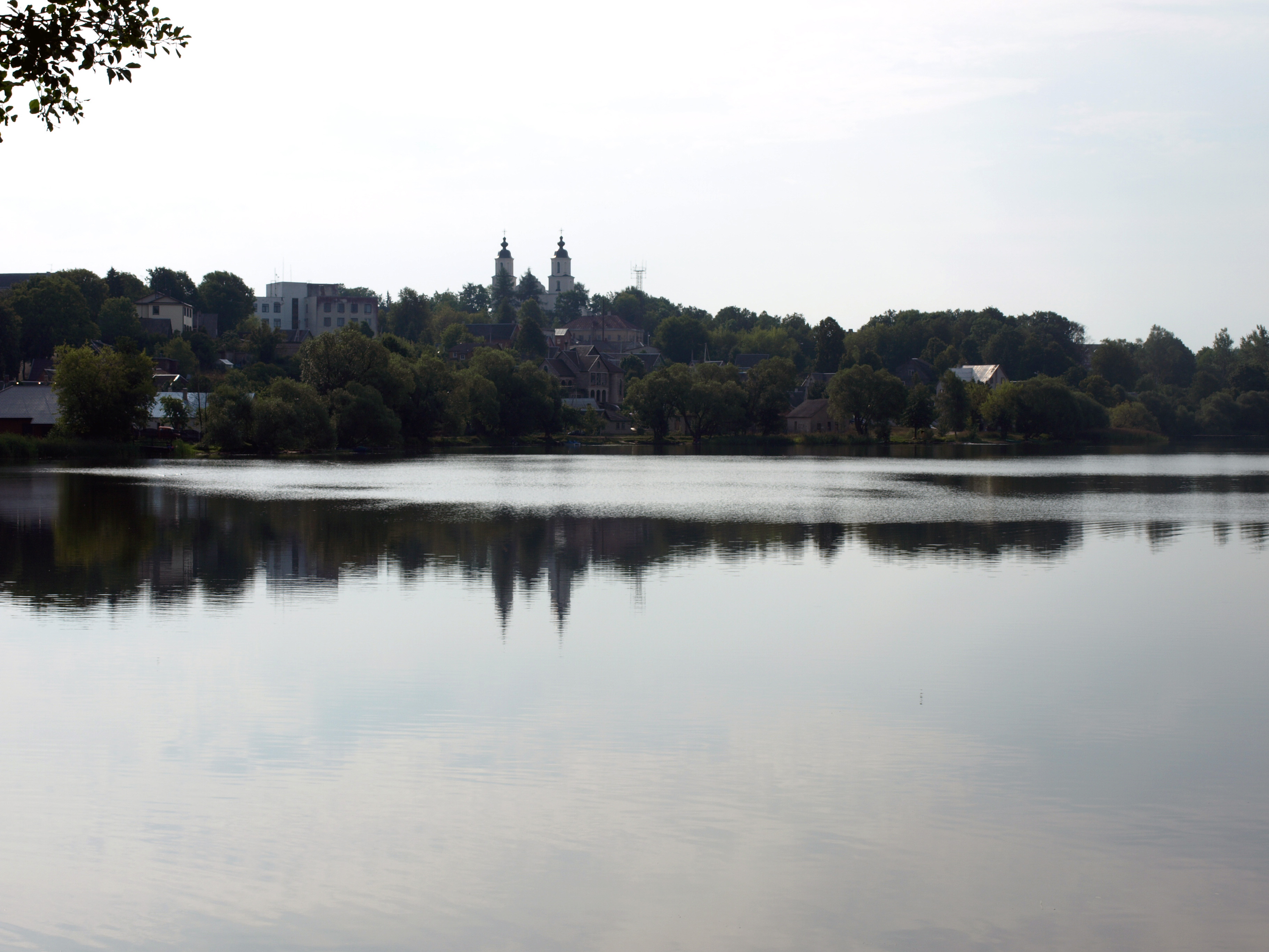 Zarasas lake, Zarasai, Zarasai district, Lithuania